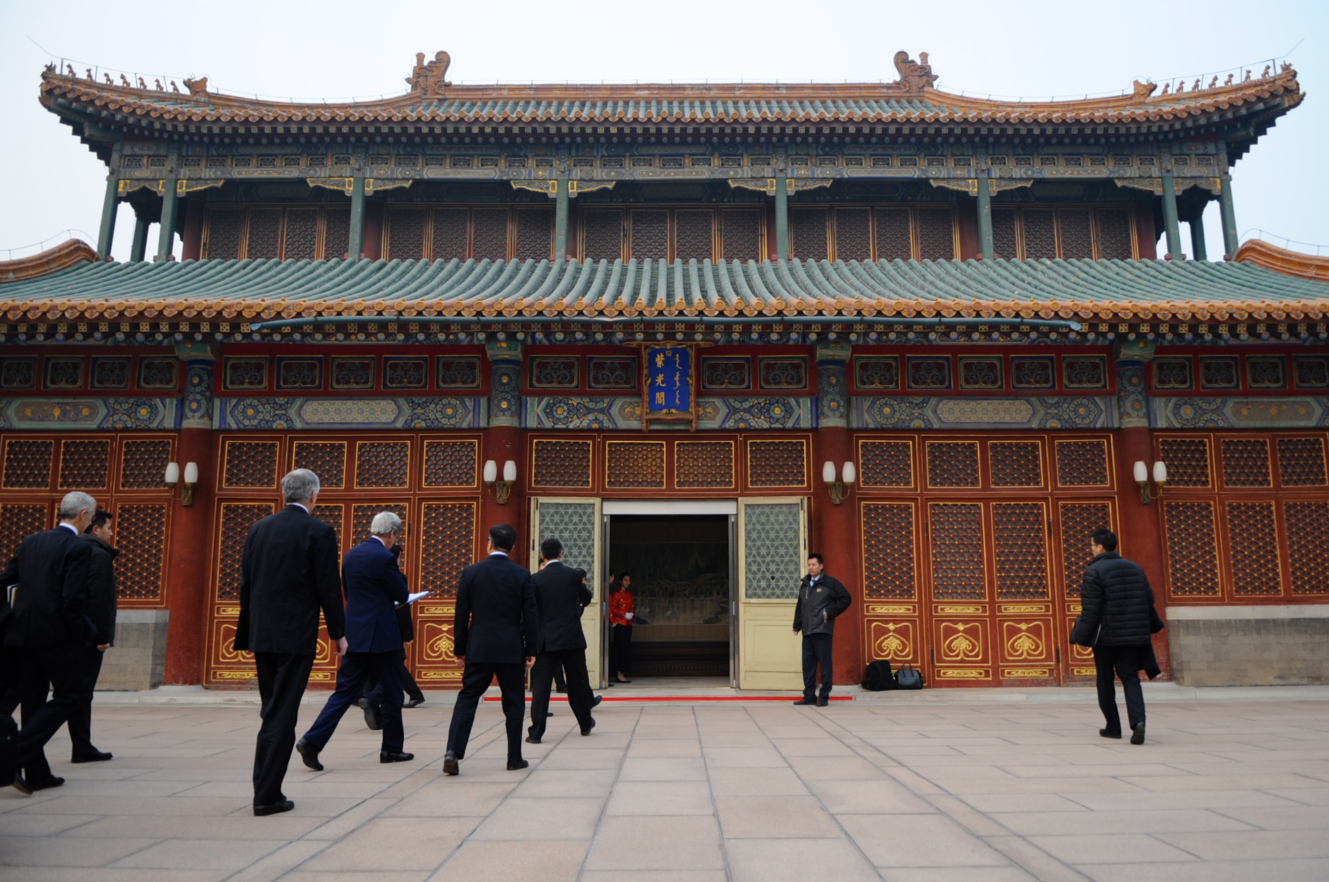 U.S. Secretary of State John Kerry arrives at the Ziguangge Purple Chamber at the Zhongnanhai Leadership Compound in Beijing, China before a meeting with Chinese Premiere Li Keqiang on February 14, 2014. [State Department photo/ Public Domain]